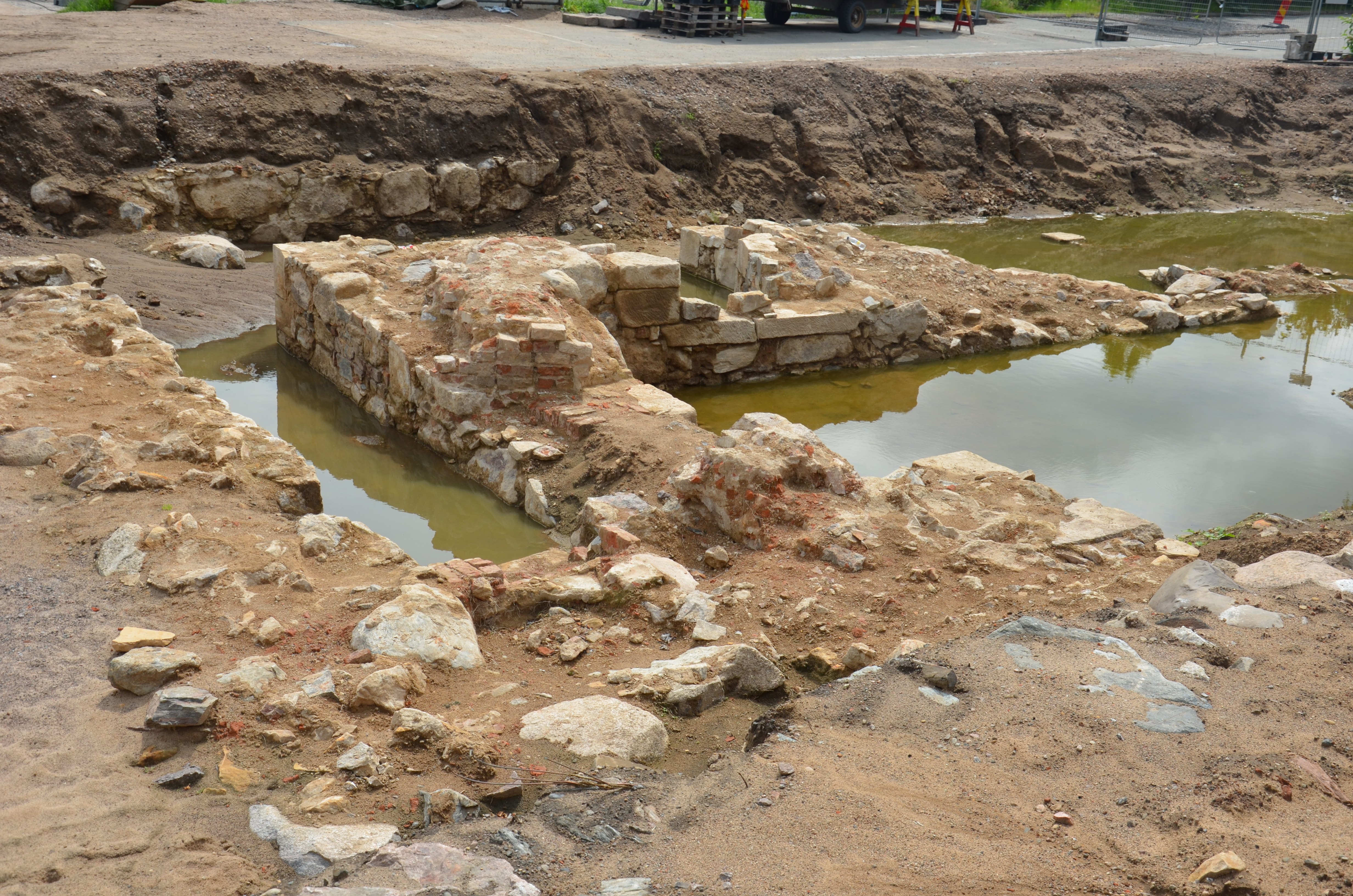 Jönköpings slott, utgrävningar sommaren 2012 av bastionen Carolus utanför gamla hamnstationen